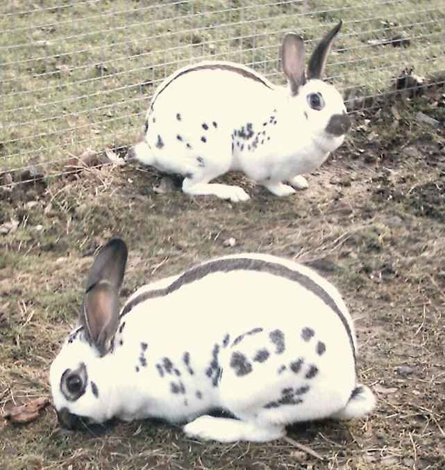 English Butterfly rabbits photographed at Aldenham Country Park near Watford, Hertfordshire on 23 January 2012